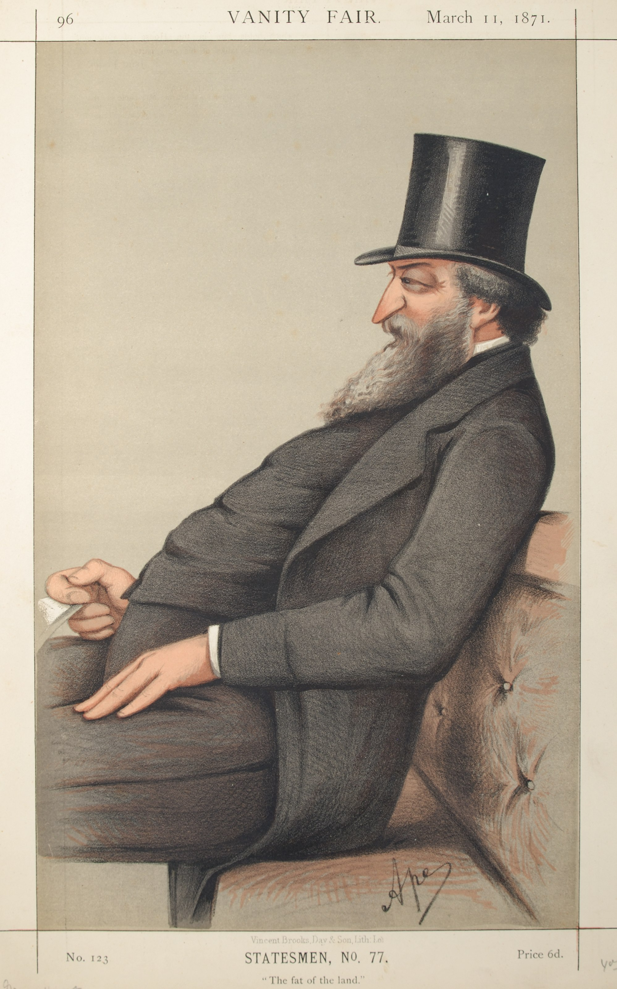 Statesmen No.77: Caricature of The Rt Hon GW Hunt. Caption reads: "The fat of the land."